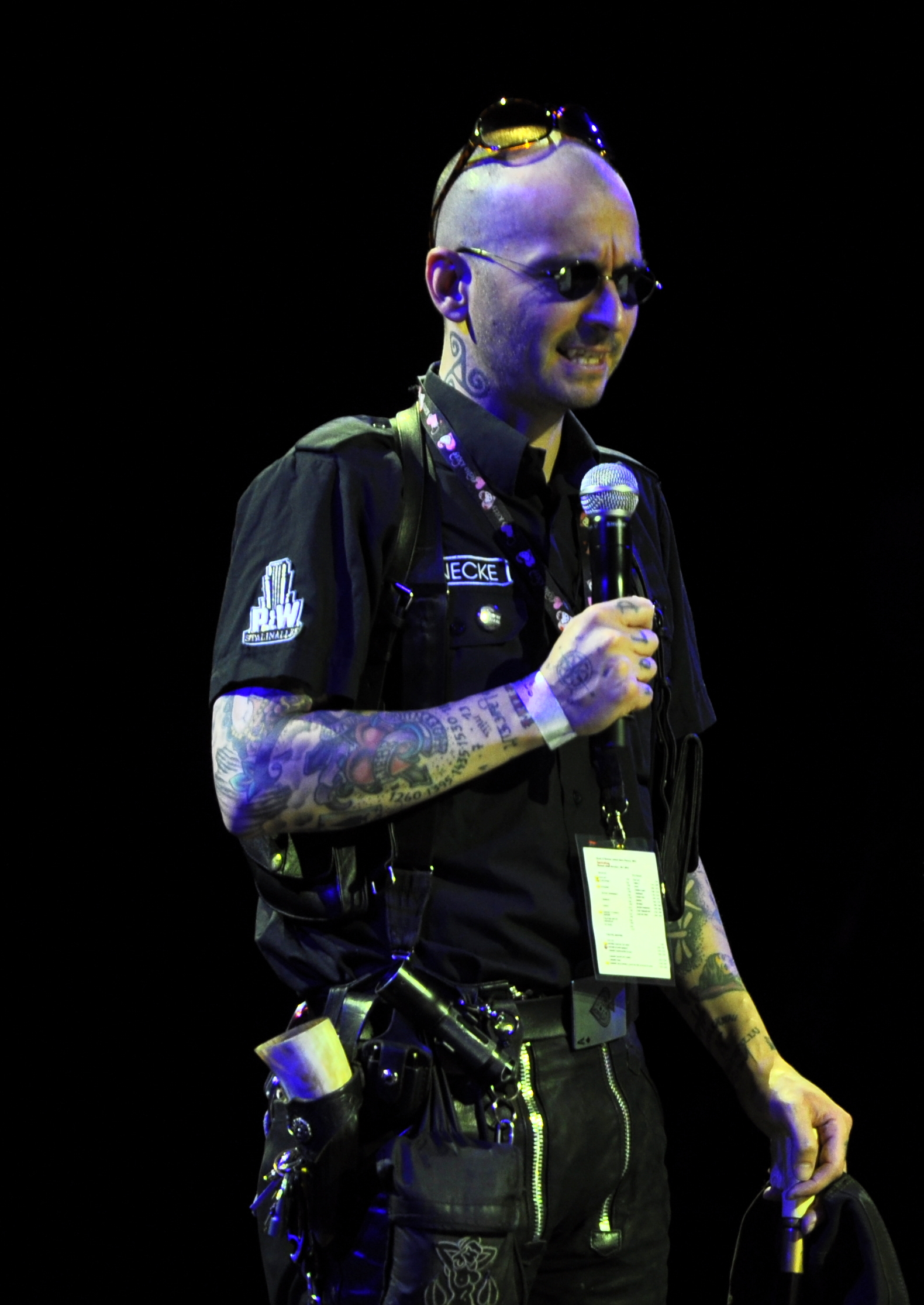 Dr. Mark Benecke and Xyra Chan at Amphi Festival 2013, Cologne, Germany